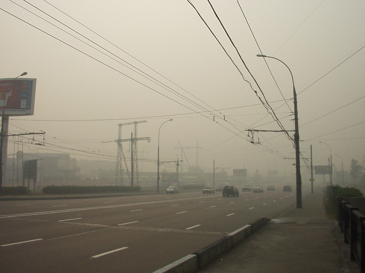 Smog in Moscow in September 2002